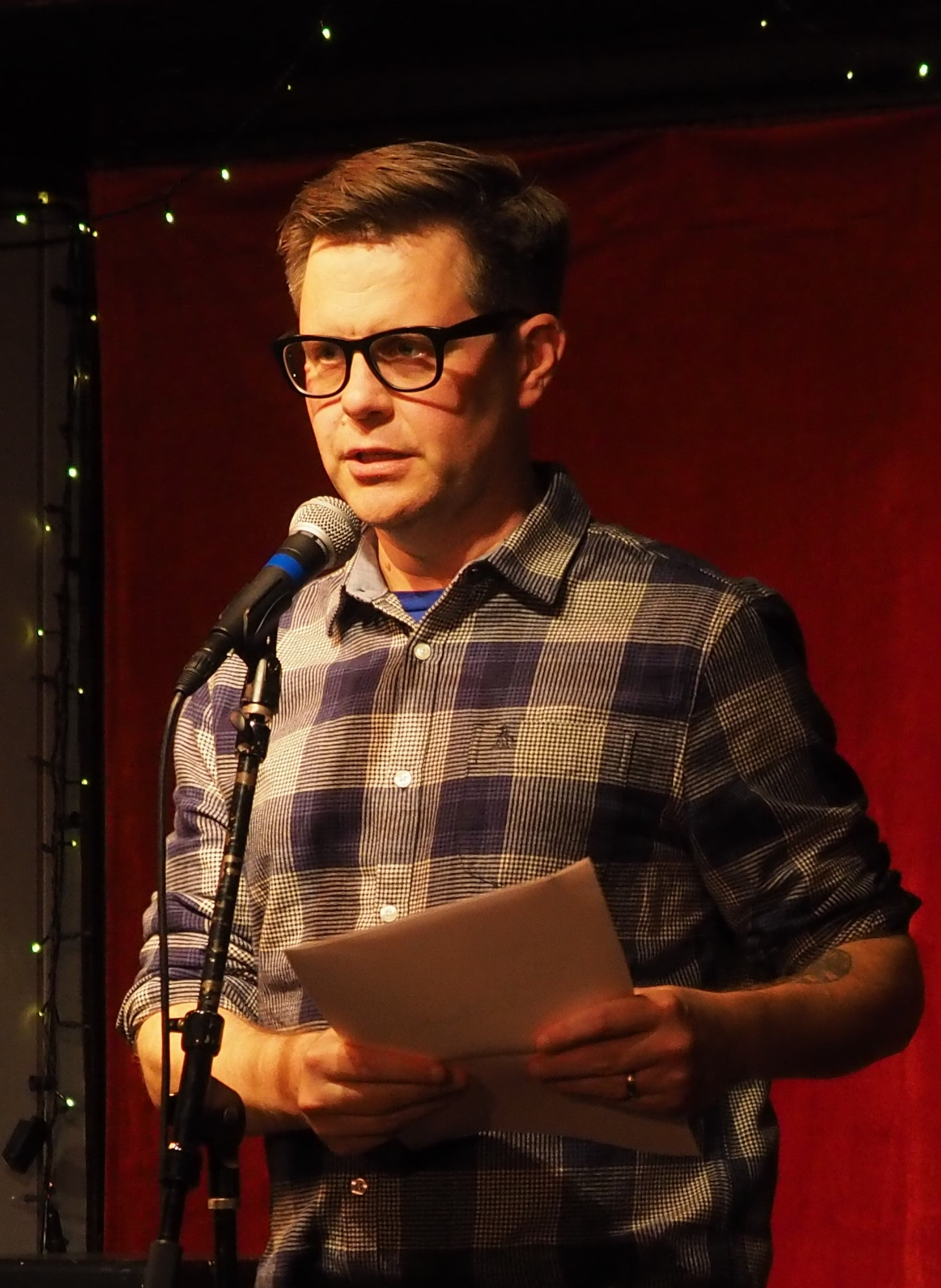 reading at Fall for the Book, Fairfax, Virginia